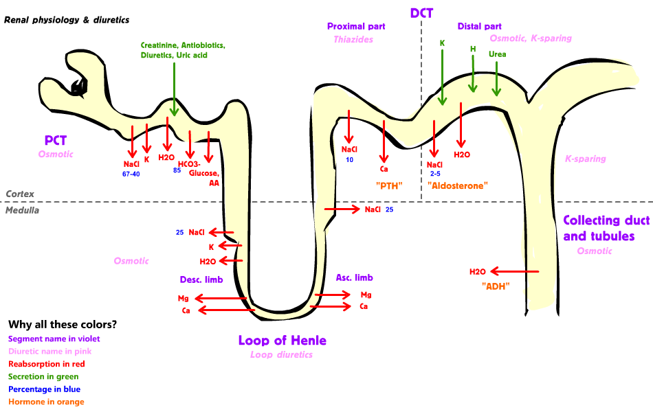 Image shows where each type of diuretic acts, and what it does.